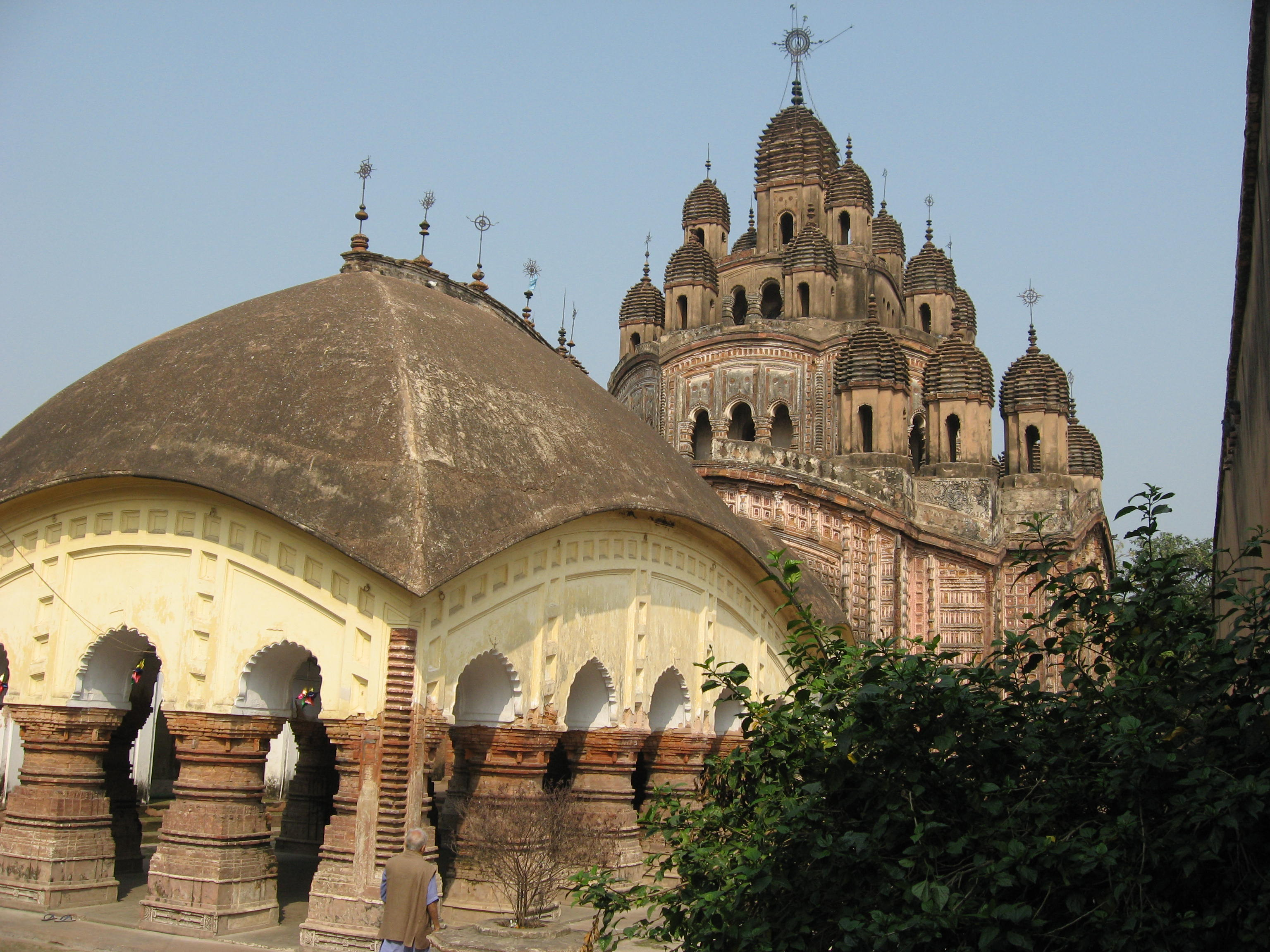 Lalji Temple : Being he oldest in group this brick built Panchavimsati Ratna temple was erected in 1739 AD within an enclosed compound. There is a Natmandapa in front of the temple and a mountain like temple known as girigovardhana temple inside. The Facades of the temple are also decorated with rich terracotta ornamentation. লালজী মন্দির : প্রাকার বেষ্টিত প্রাঙ্গনে ১৭৩৯ খ্রিষ্টাব্দে নির্মিত এই পঞ্চবিংশতি-রত্ন মন্দিরটি সম শ্রেণীভুক্ত মন্দিরগুলির মধ্যে প্রাচীনতম । মন্দিরের সামনে রয়েছে একটি নাটমণ্ডপ এবং আর একটি পর্বতাকৃতি মন্দির যা গিরিগোবর্ধন নামে পরিচিত । মূল মন্দিরটি পোড়ামাটির অলঙ্করণে মণ্ডিত ।